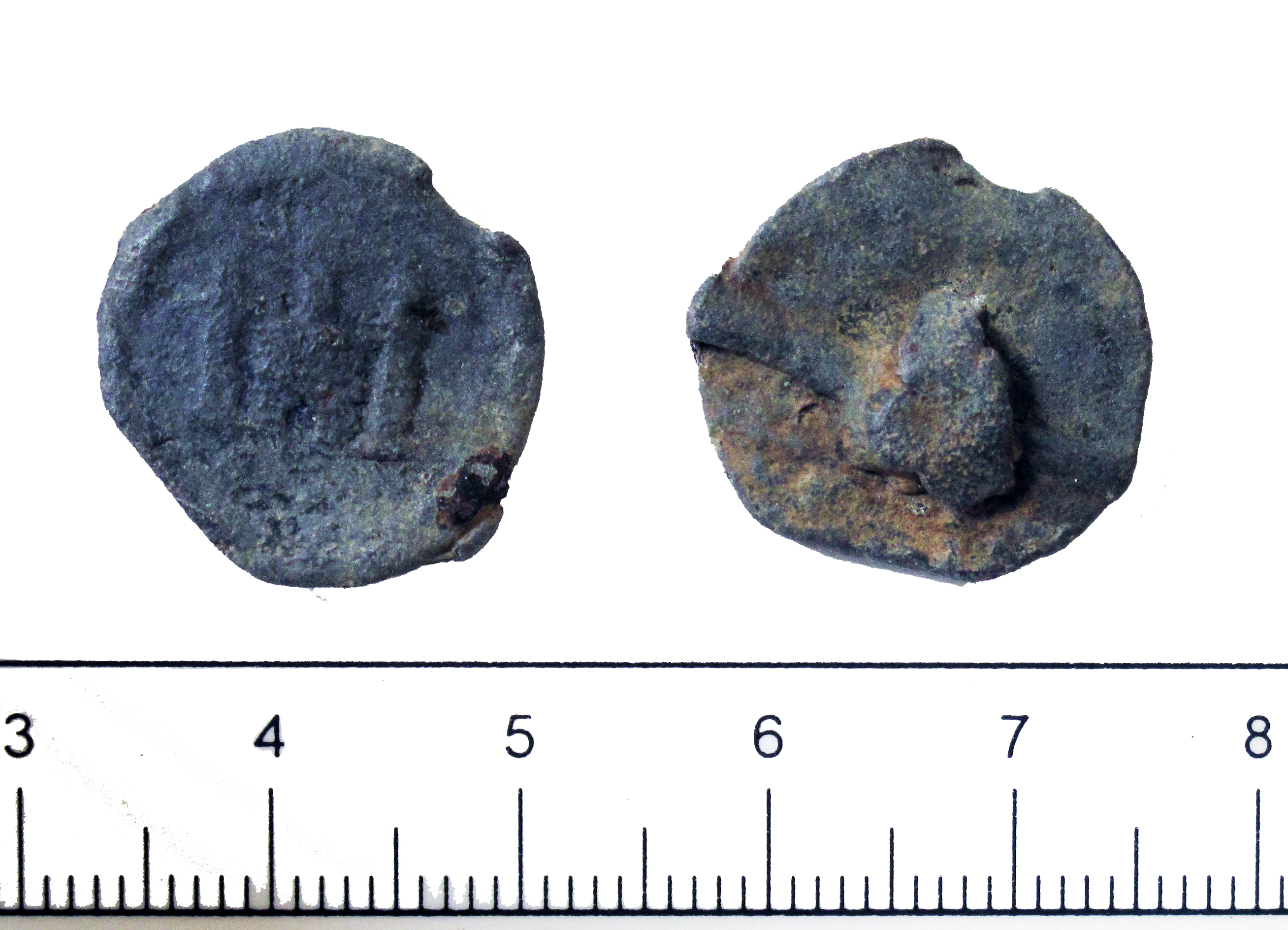 Roman lead cloth seals found in the River Wear at Durham.